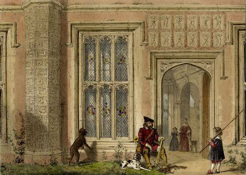 Imaginary Tudor scene at main entrance door of Sutton Place, Guildford, Surrey.